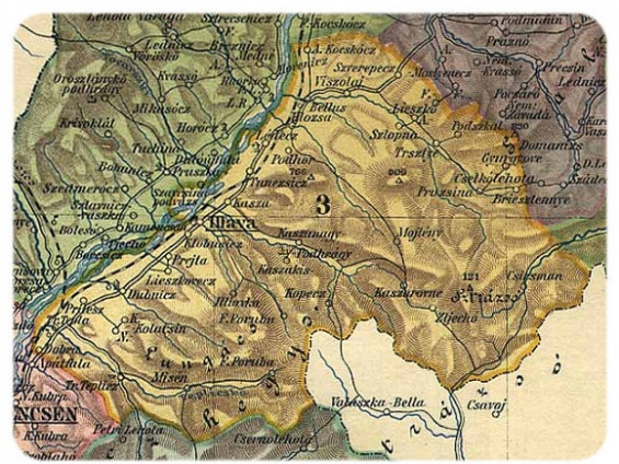 District Ilava in 1910.